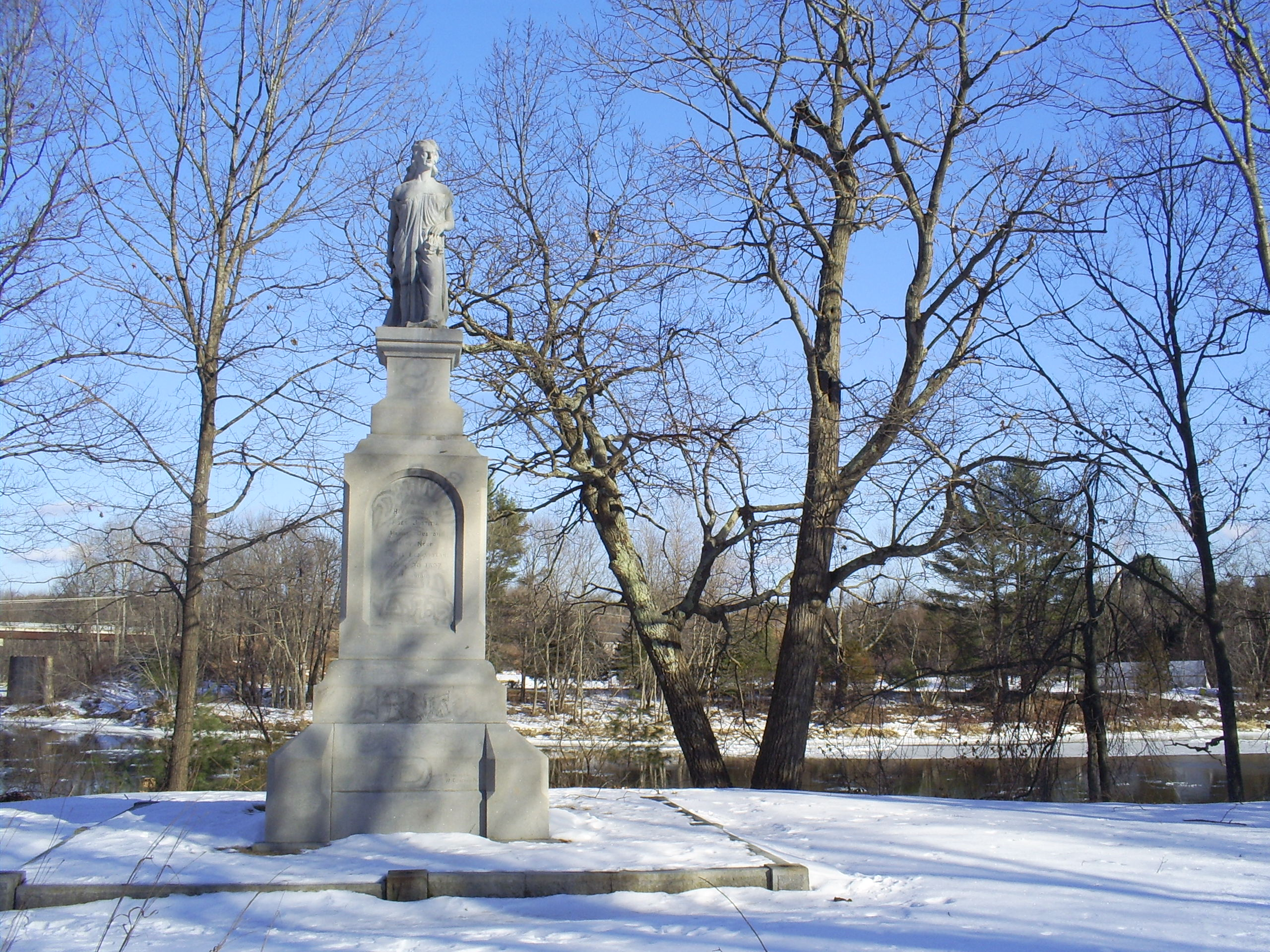 Photo by Craig Michaud. This statue is on the island in Boscawen, New hampshire where Hannah killed the Indians and escaped.